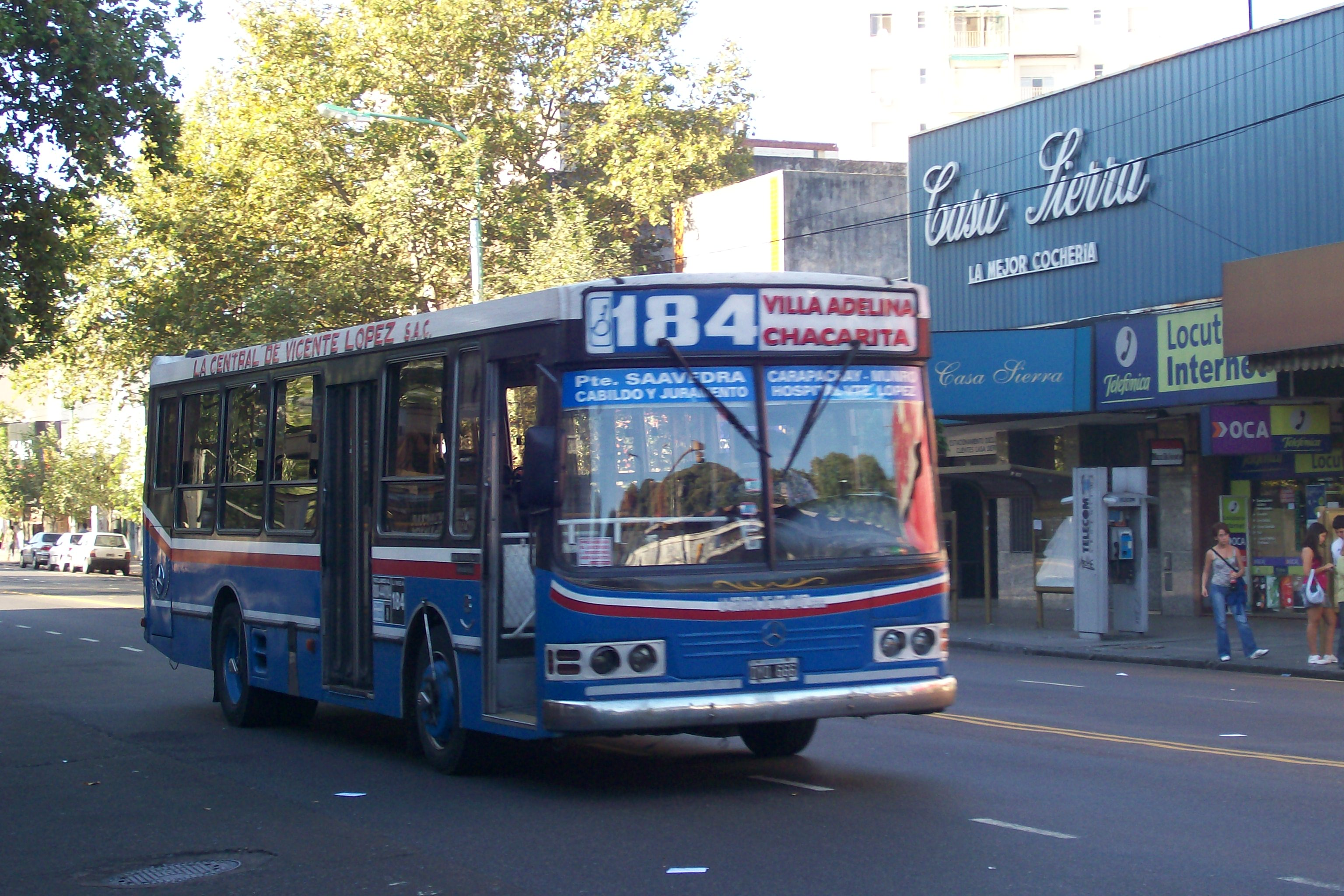 Mercedes-Benz bus (reg. ... 666) or chassis bus in Buenos Aires, Argentina. Colectivo, line 184, La Central de Vicente López S.A.C. operator.